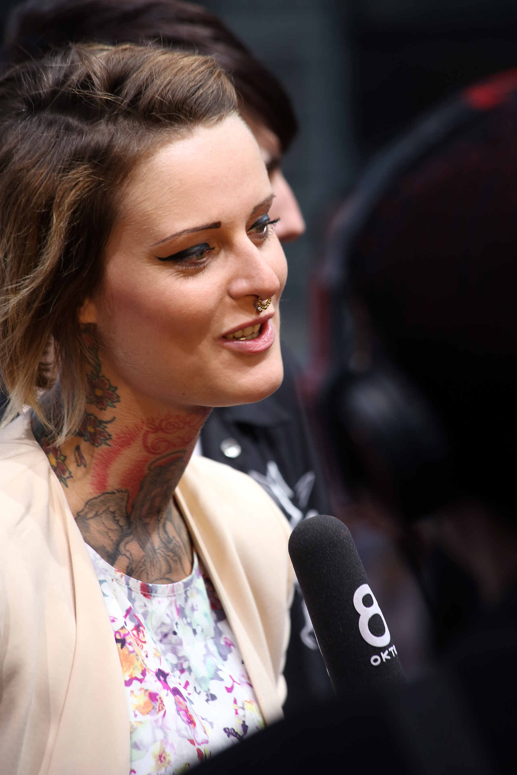 Jennifer Rostock at the Amadeus Austrian Music Award 2014 at Volkstheater in Vienna